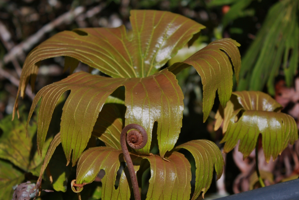 I found the flora as we climbed Mount Kinabalu fascinating, observing the change in biota as we rose in elevation into the cloud forest and above was so interesting.